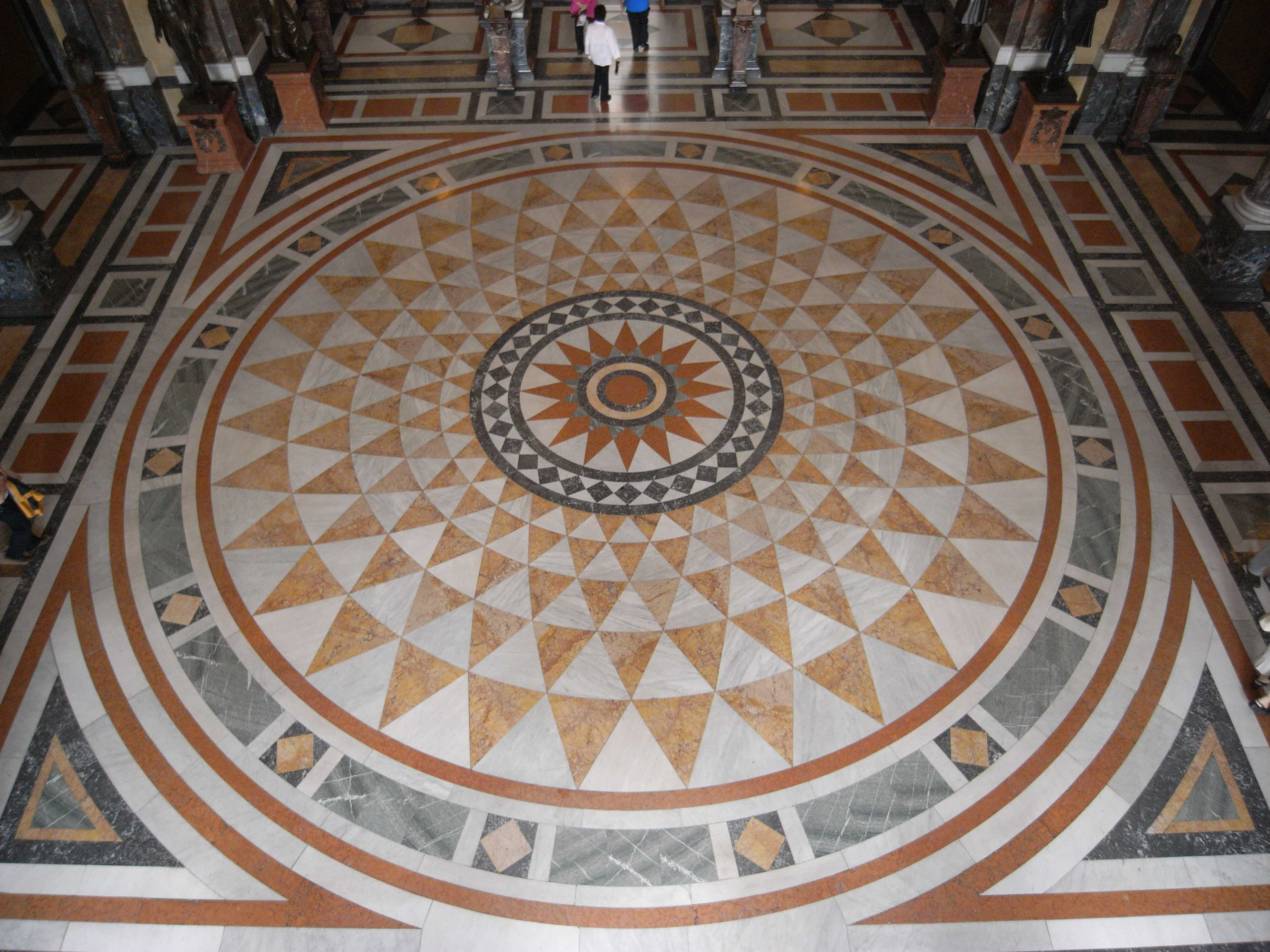 marble rossette in Pantheon, National Museum of Prag